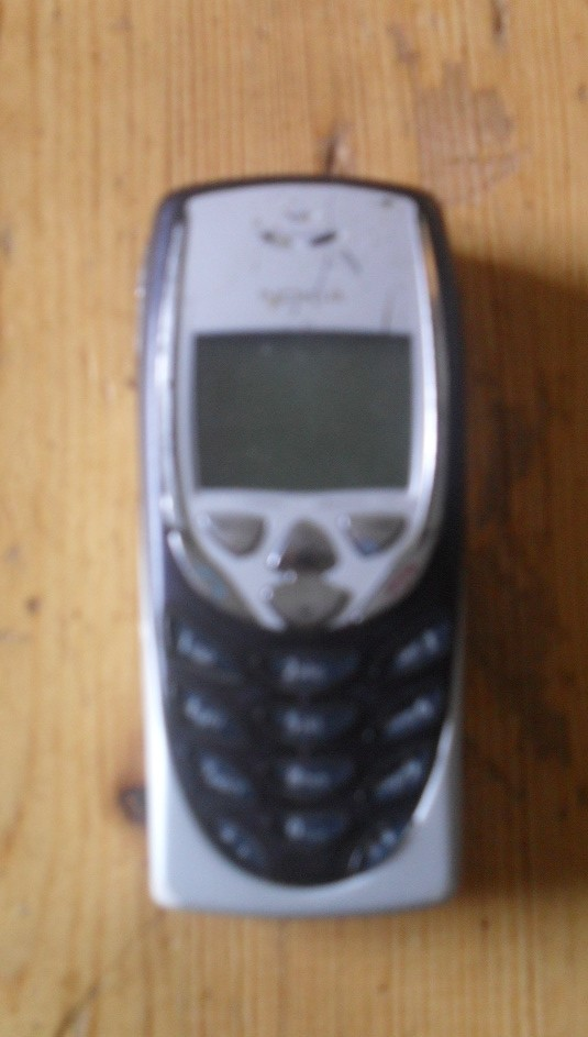 Nokia 8310